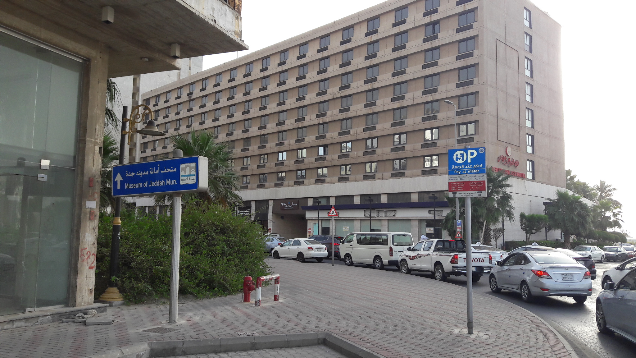 Red Sea Palace Hotel, Jeddah